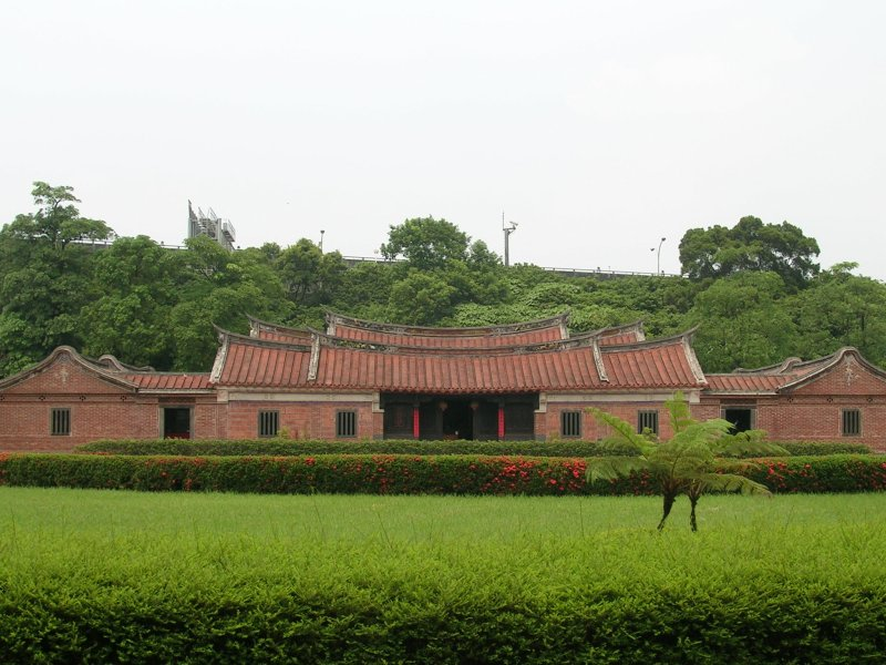 Lin An Tai Old Homestead, Home of a rich merchant in 19th century, Taipei